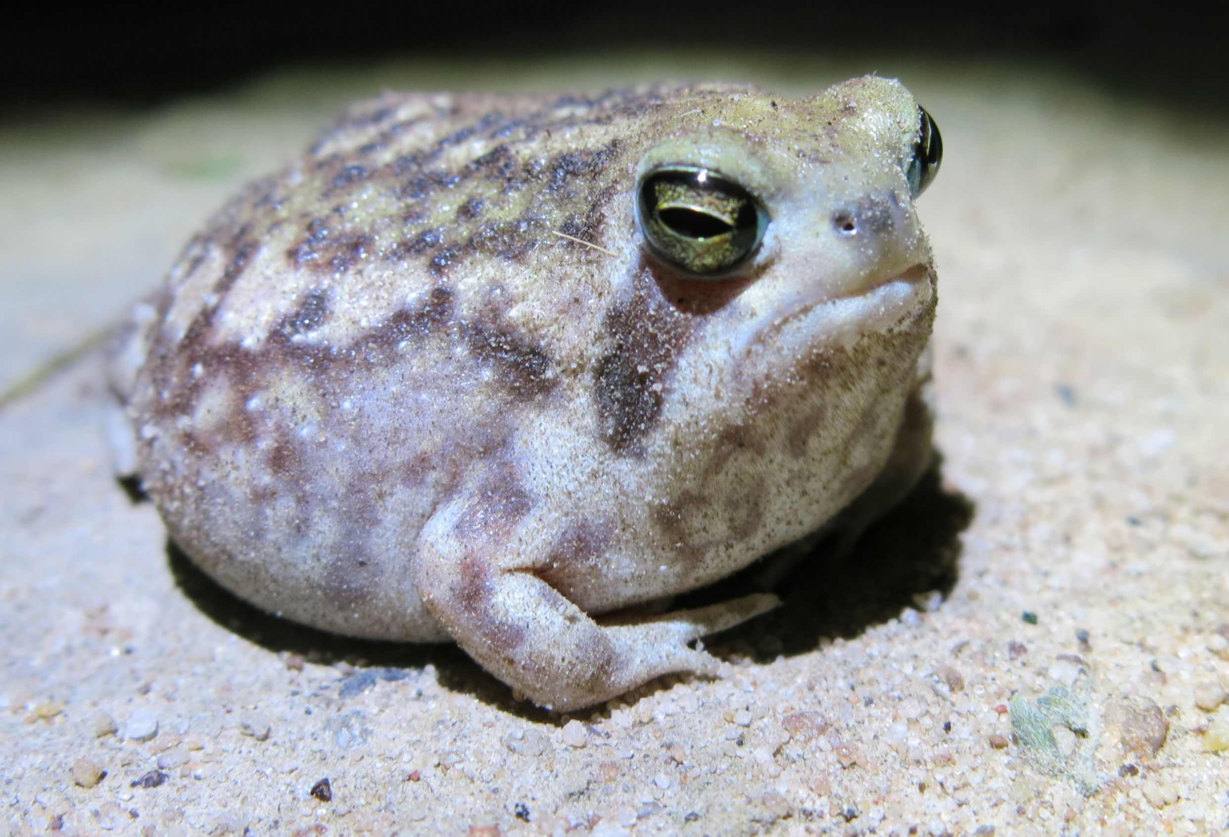 Breviceps adspersus adspersus, Limpopo, South Africa